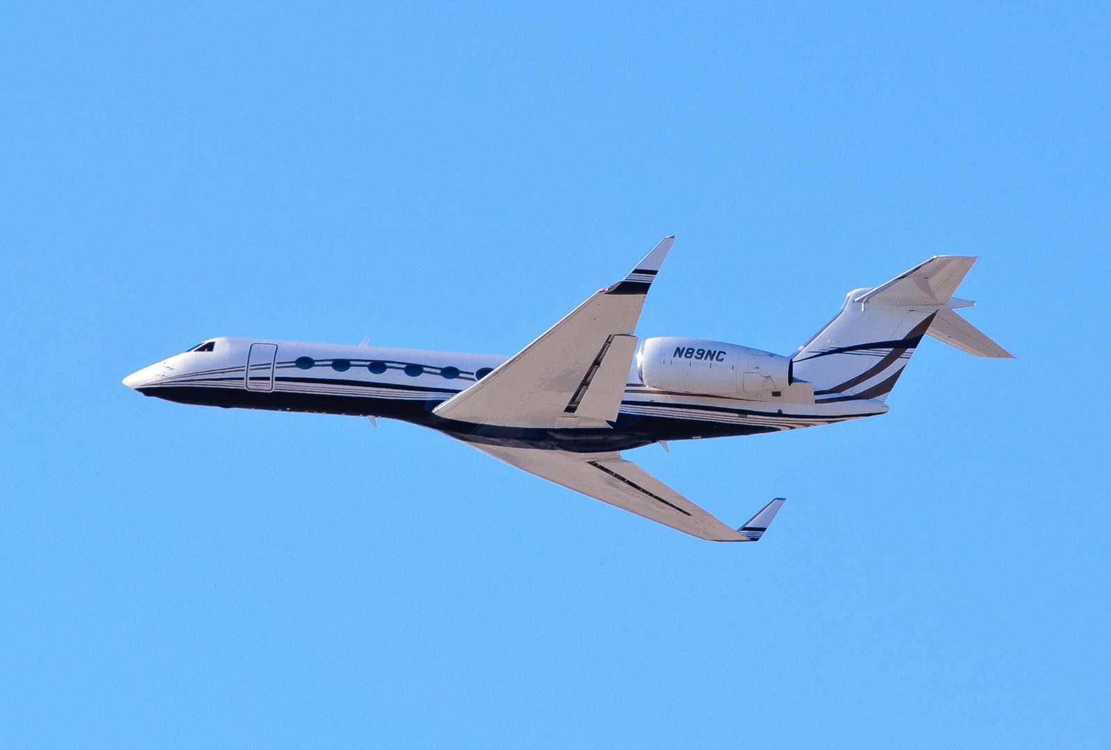 I couldn't find much information on this particular aircraft, other than that it is owned by Wells Fargo Bank and is most likely leased to someone. N89NC, Gulfstream V-SP